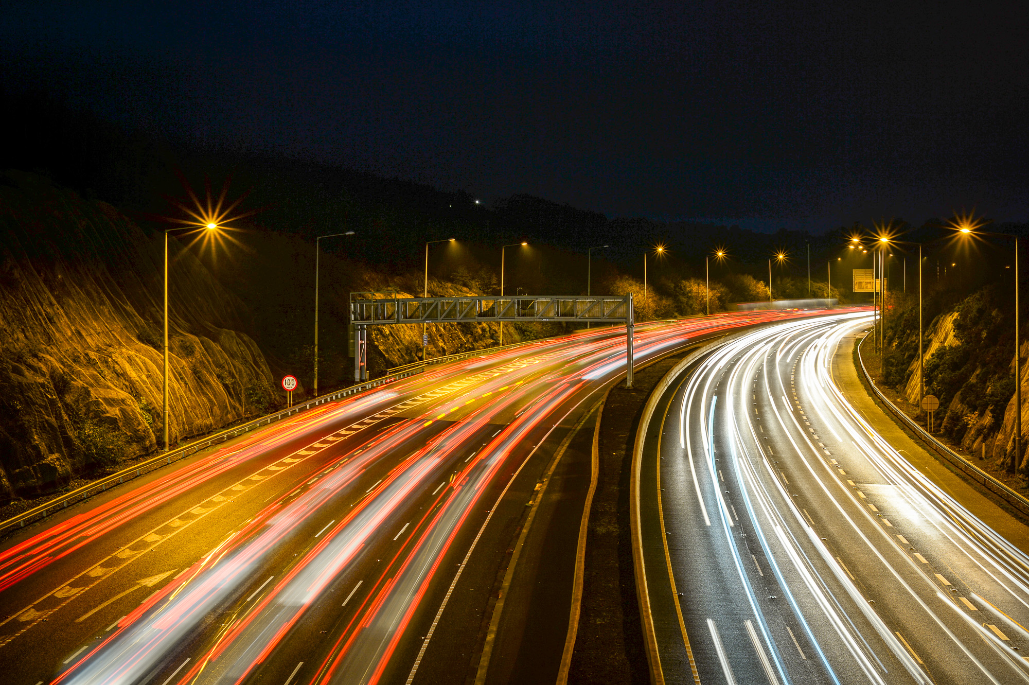 View of the M50 at the Dundrum Exit. Long exposure photograph at night showing light trails.